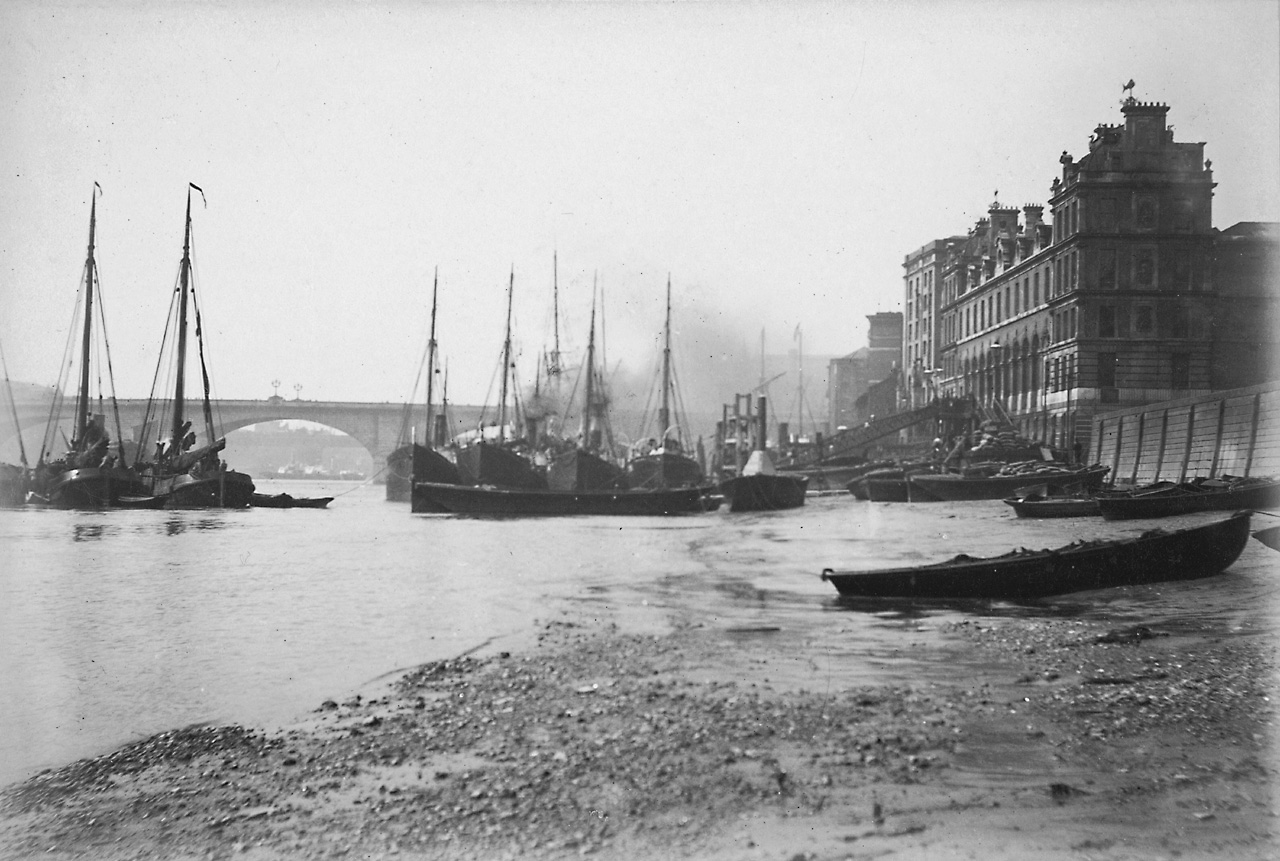 Reproduction ID: H1064 Maker: Unknown Date: 1886 Thacker Collection